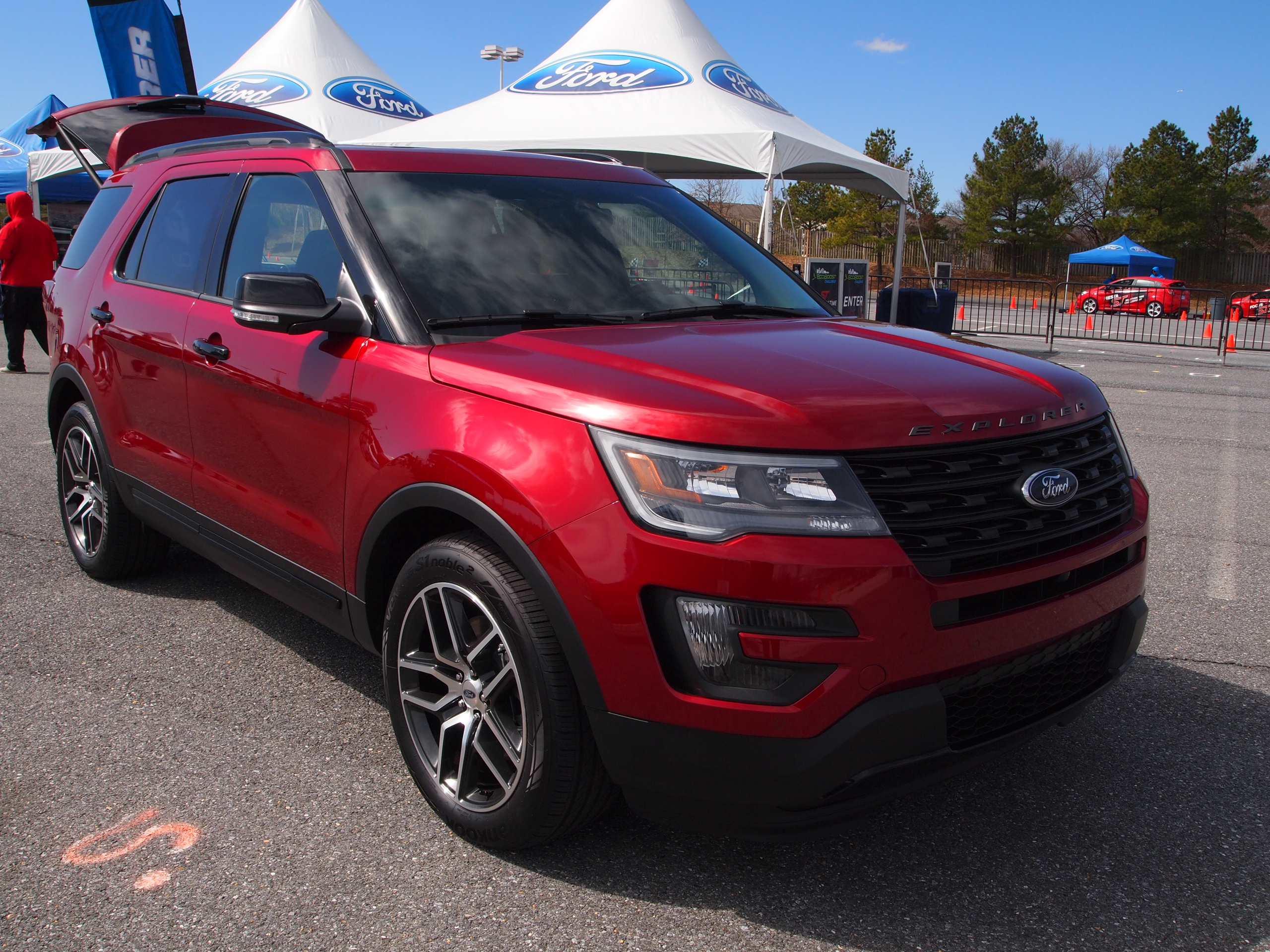 2016 Ford Explorer Sport, photographed at Ford Motor Company's EcoBoost Challenge event